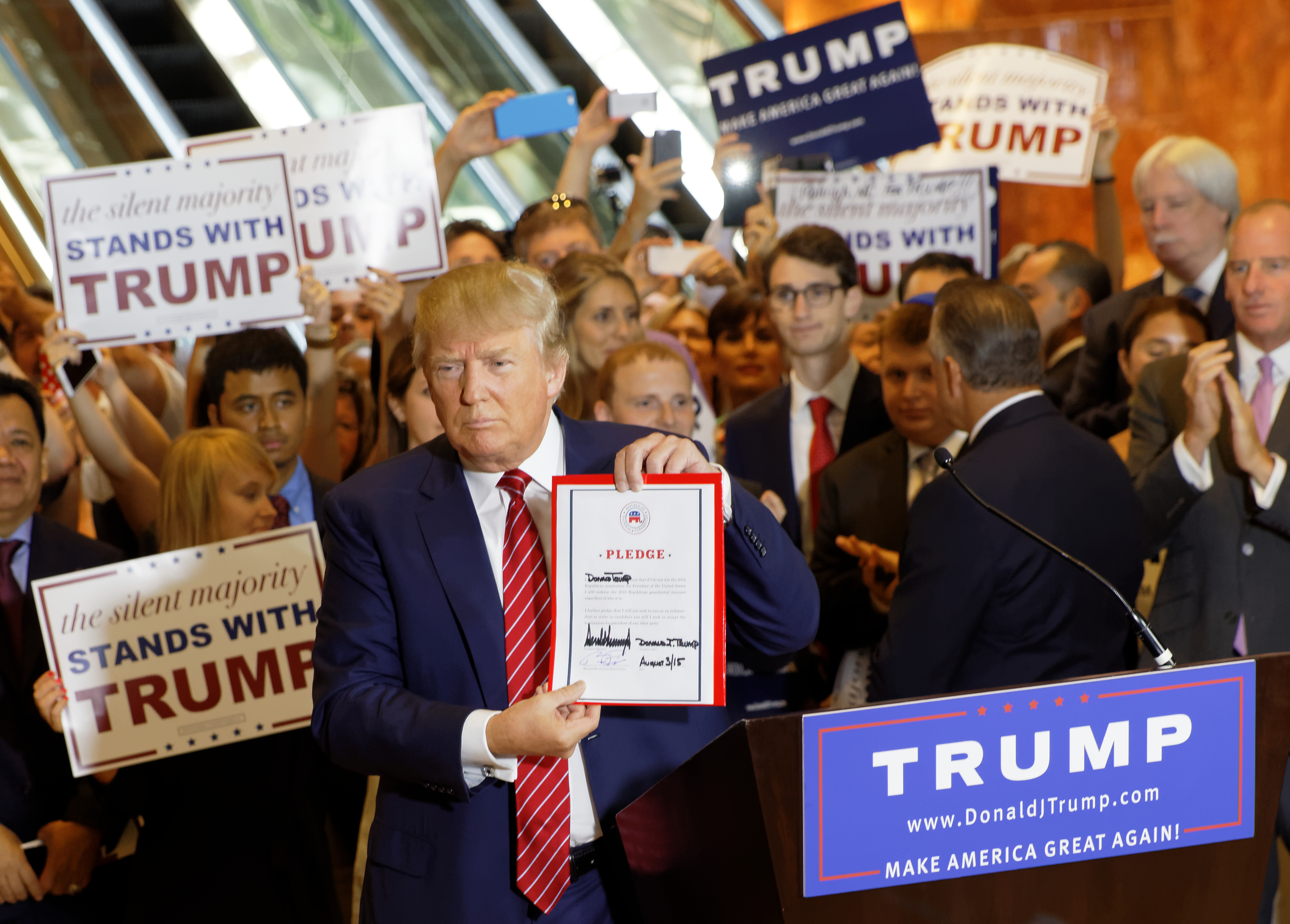 New York, 3 September 2015 (CNN). Donald Trump has signed the pledge. The Republican presidential front-runner met privately with Republican National Committee Chairman Reince Priebus and signed a loyalty pledge. This means Trump has promised to support the party's eventual nominee -- whoever that may be -- and that he will not run as a third-party candidate. Trump explained Thursday that he came to the decision to sign the pledge because the Republican Party in recent months has been "extremely fair" to him. RNC officials began circulating a pledge to various GOP presidential campaigns this week, measuring up how much appetite there is in the field to commit to supporting the eventual nominee. "I, ________, affirm that if I do not win the 2016 Republican nomination for President of the United States I will endorse the 2016 Republican presidential nominee regardless of who it is," it reads. The pledge continues: "I further pledge that I will not seek to run as an independent or write-in candidate nor will I seek or accept the nomination for president of any other party." The pledge has not only put pressure on Trump to commit to the party, it's also forcing some of his rivals to promise to support Trump if he were to clinch the GOP nomination. It's a particularly uncomfortable position for a candidate like Jeb Bush, who in recent weeks has publicly clashed with Trump. However, pressed on whether he would support Trump if he were to become the nominee, the former Florida governor answered in the affirmative. "Yes, I would, of course. We need to be unified. We need to win," Bush said. Source: [1] A few months later, Donald Trump decisively won the Republican nomination and Jeb Bush refused to endorse him.